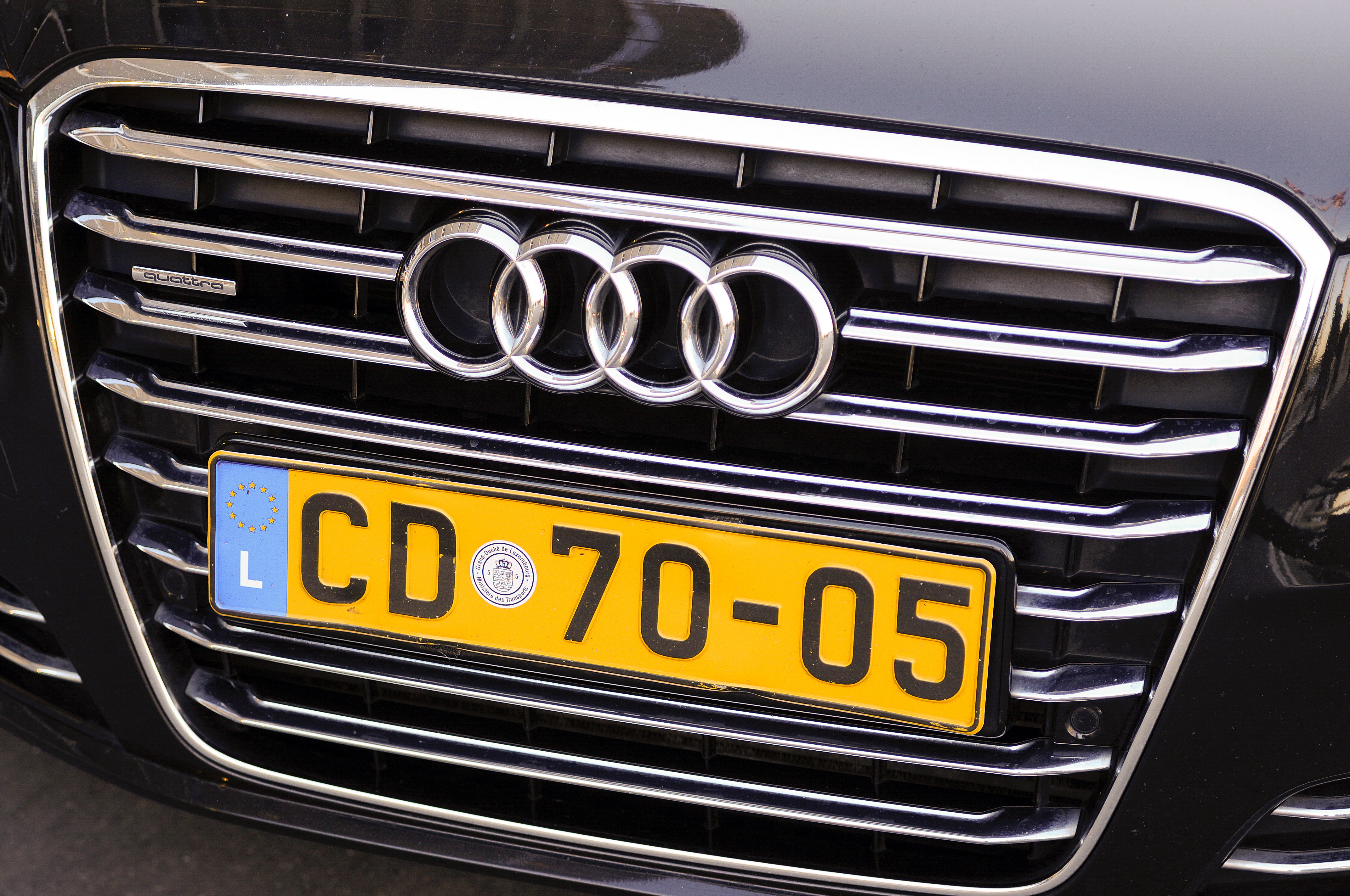 Vehicle registration plates of diplomat of Luxembourg European Parliament 2014 3.–7. February 2014, StrasbourgThis photo has been created within the project "WIKI loves parliaments / European Parliament". Usage and Help If you have any questions concerning this picture or how to use it, feel free to Personality rights warningAlthough this work is freely licensed or in the public domain, the person(s) shown may have rights that legally restrict certain re-uses unless those depicted consent to such uses. In these cases, a model release or other evidence of consent could protect you from infringement claims.